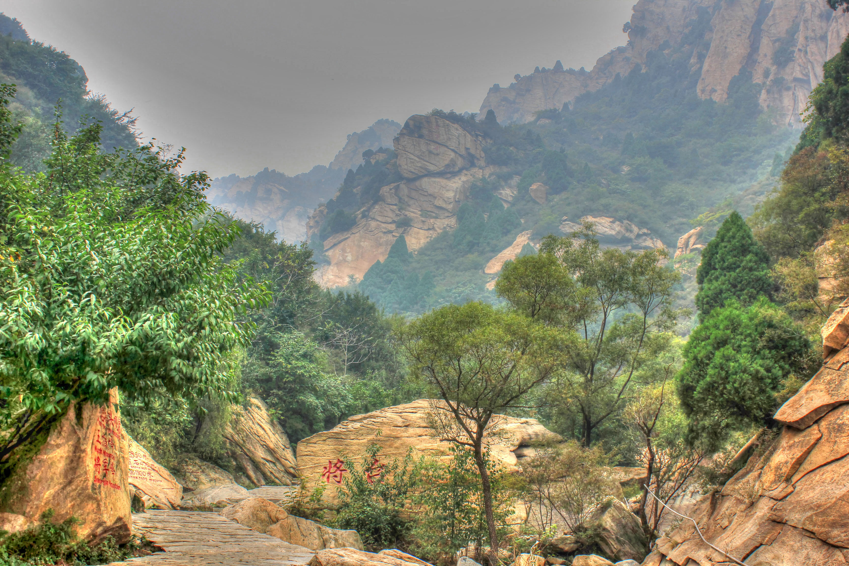 Palaces, avenues, buildings, parks, and scenery around China's Capital General's Peak in the Mountains near Beijing